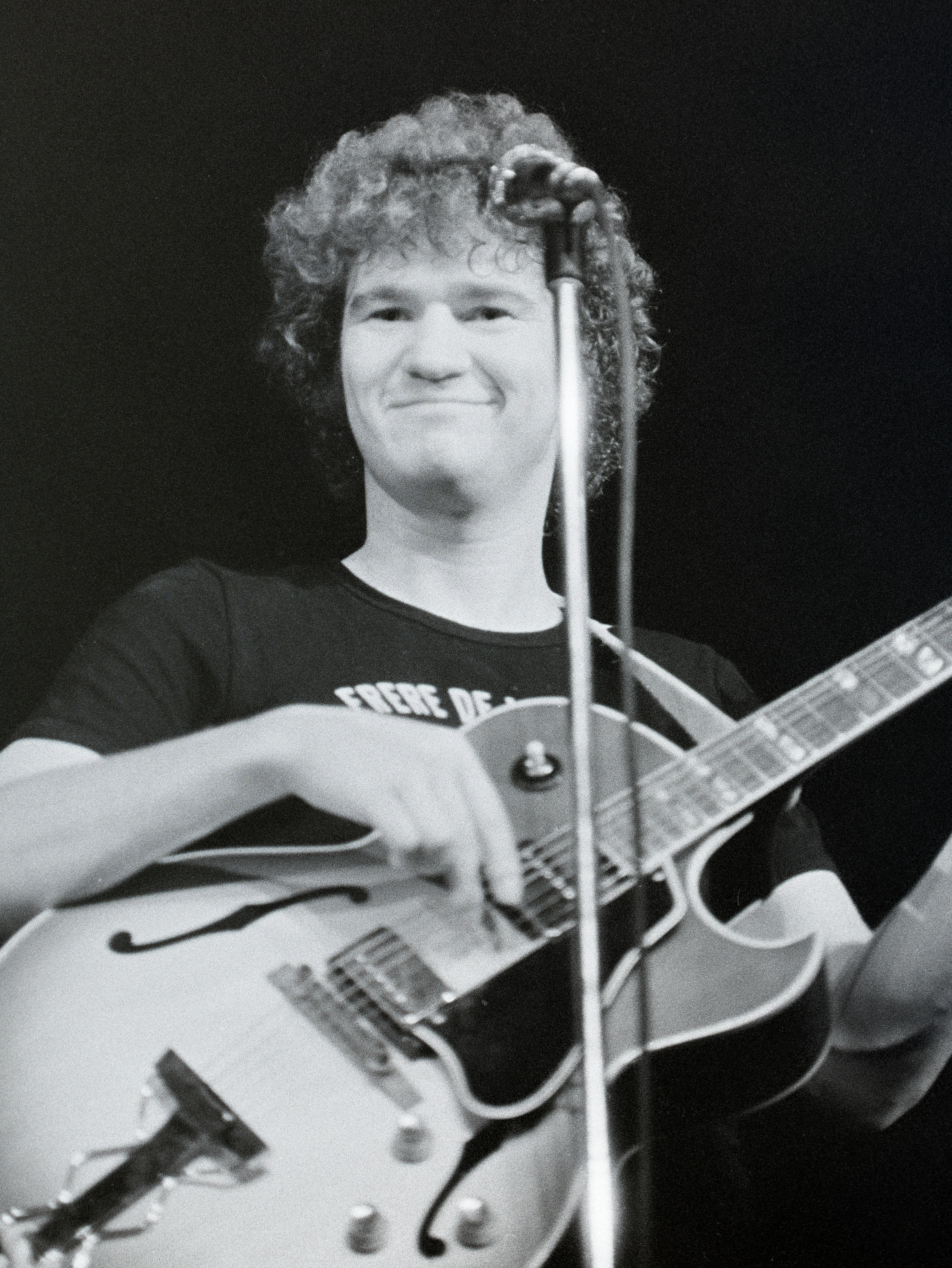 Robert Charlebois in 1972 at Maisonneuve College in Montreal. Supplementary technical data: digitization from the original 35mm negative. Original camera: Nikon F.